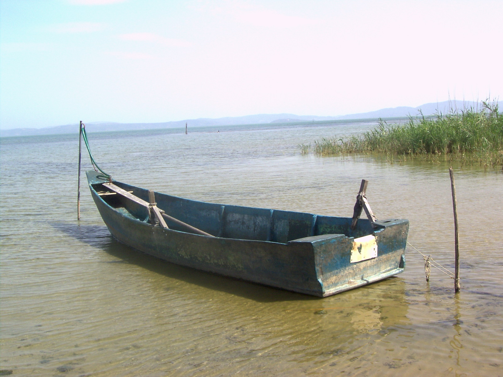 There are many fishing boat in Trasimeno, because the wealth of fishes, expecially in the last years with abundance of water. This one is a particularly big one, rescued and put in 'service' in the last year. it is around 7 m length while the norm ils 4-5. Far away Polvese isle. The shallow waters are here also showed, since the light of the sun enlighted well the sand bottom up to 1 m deep in the water.